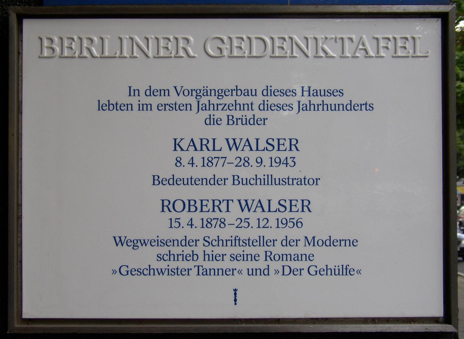 Berlin memorial plaque for Karl Walser and Robert Walser in Berlin-Charlottenburg, Germany